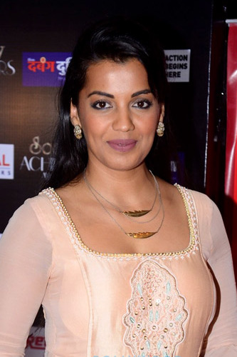 Mugdha Godse at the Society Achievers Awards 2018